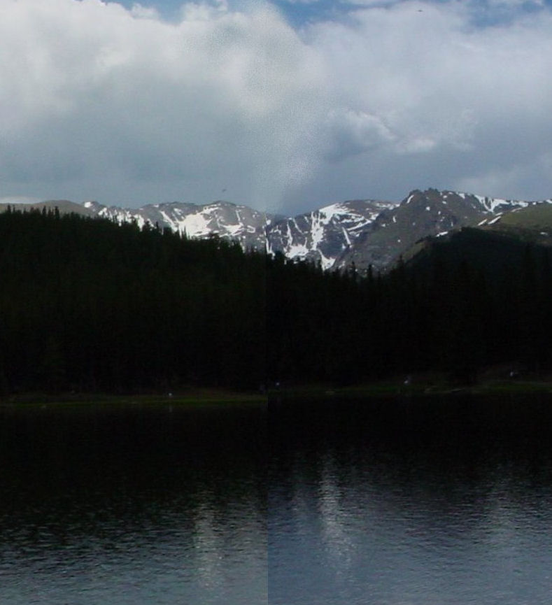 Mt Evans, Colorado from Echo Lake, photo by Bill Gorman